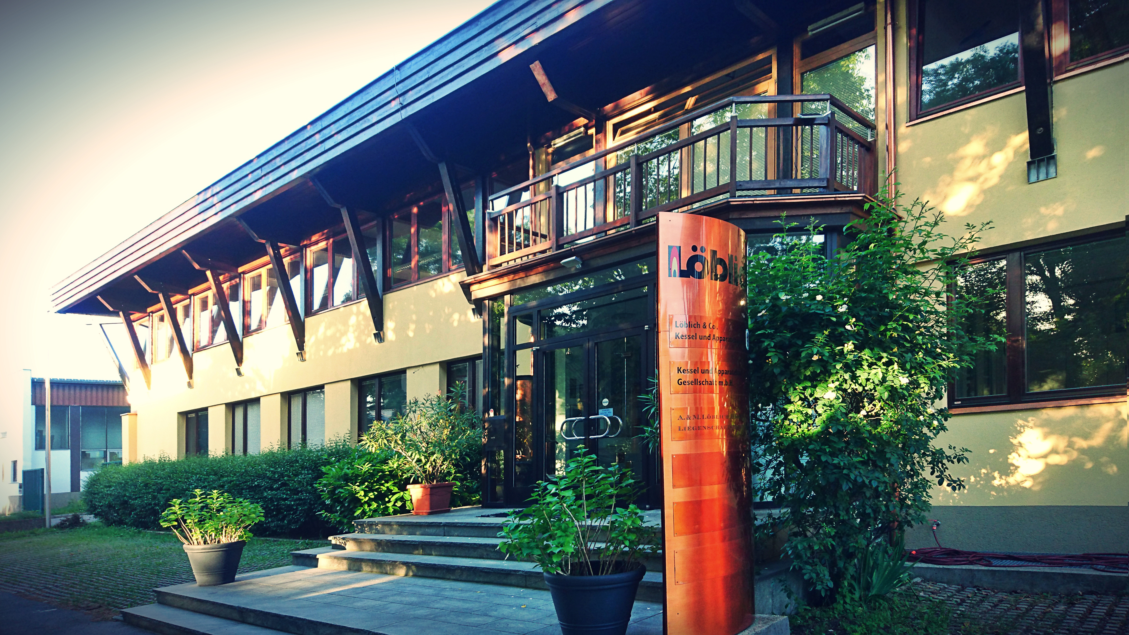 Loeblich&Co Headoffice in Vienna Favoriten